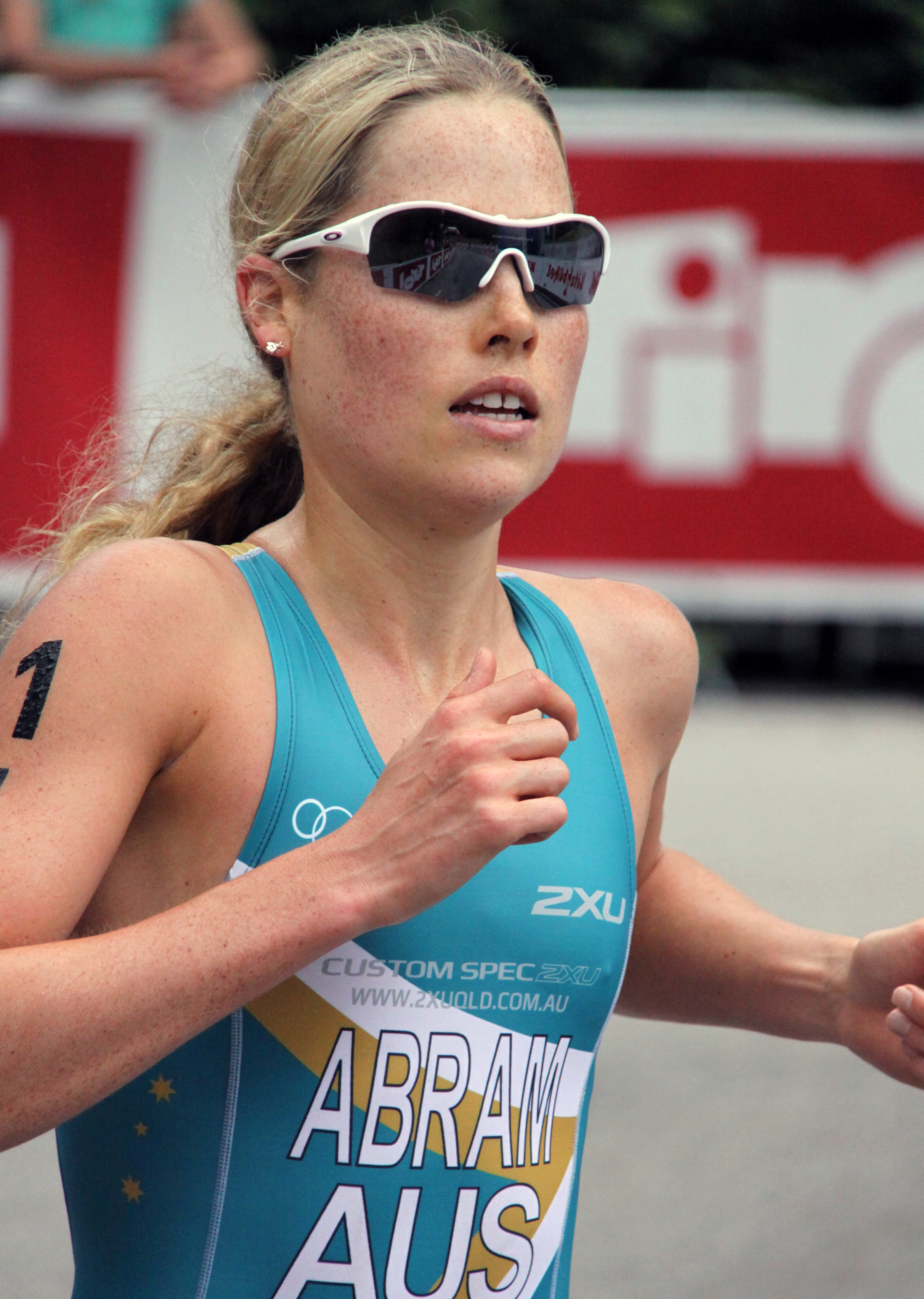 Felicity Abram at the World Championship Series Triathlon in Kitzbuhel (Kitzbühel), 2010.